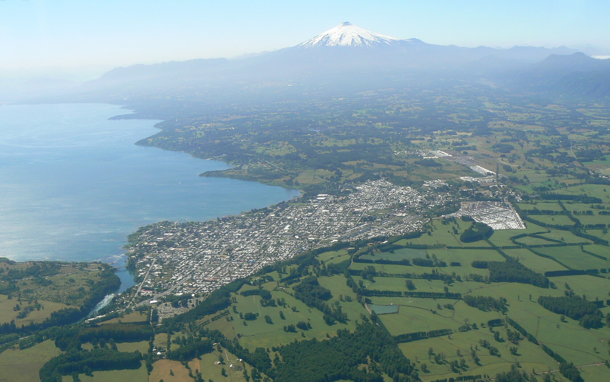 Villarrica town on Lago Villarrica, with Volcán Villarrica in the distance, Chile.Villarrica town on Lago Villarrica, with Volcan Villarrica in the distance